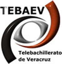 Dirección de Telebachillerato Veracruz Logo.